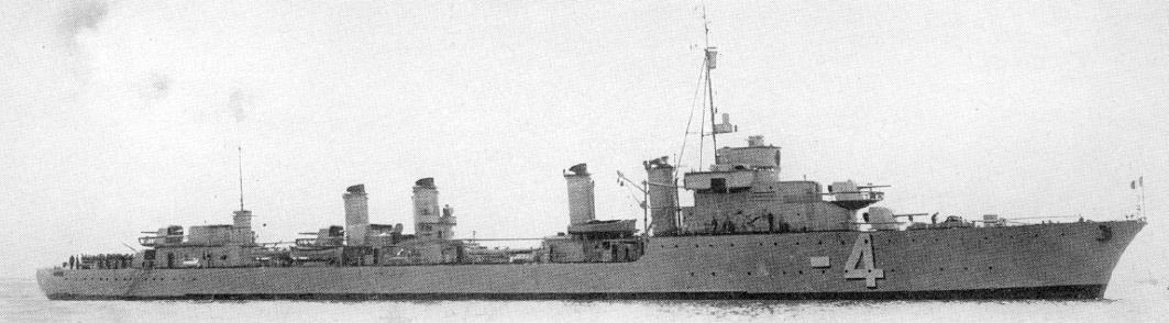 The French destroyer Milan with a number carried in 1936-1937, ONI203 booklet for identification of ships of the French Navy, published by the Division of Naval Intelligence of the Navy Department of the United States (9 November 1942).